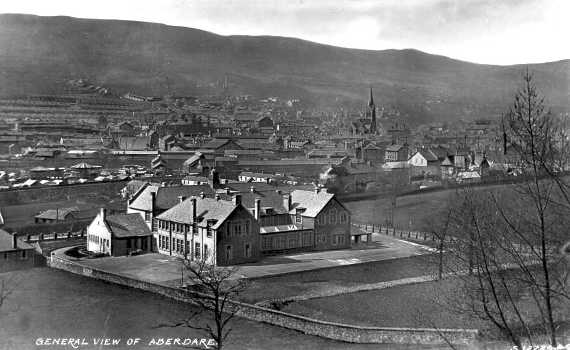 View of Aberdare, Rhondda Cynon Taf, Wales. The back of the old girls's school building appears in the front of the picture, before additional buildings were added.